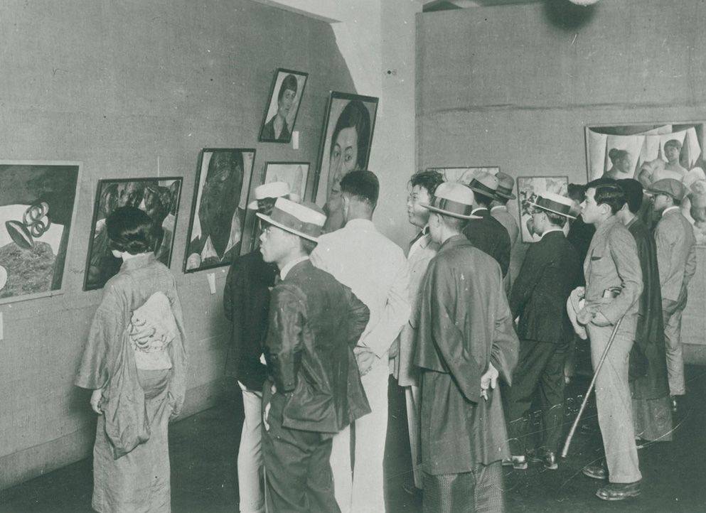 At the exhibition of Russian art in Japan. To the left of the center are paintings by Petrov-Vodkin: “Portrait of Anna Akhmatova” (1922), “Portrait of the Artist's Wife”.